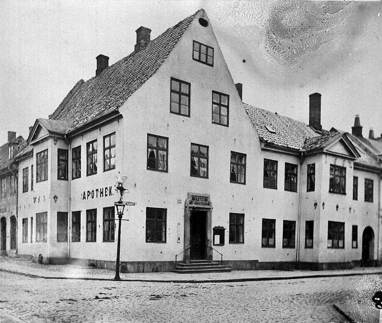 Svaneapoteket in Oslo in Tollbugata 21. Pharmacy established in 1628. From 1698 to 1896 the pharmacy was located in Tollbugata 21. The building was demolished 30th June 1897.